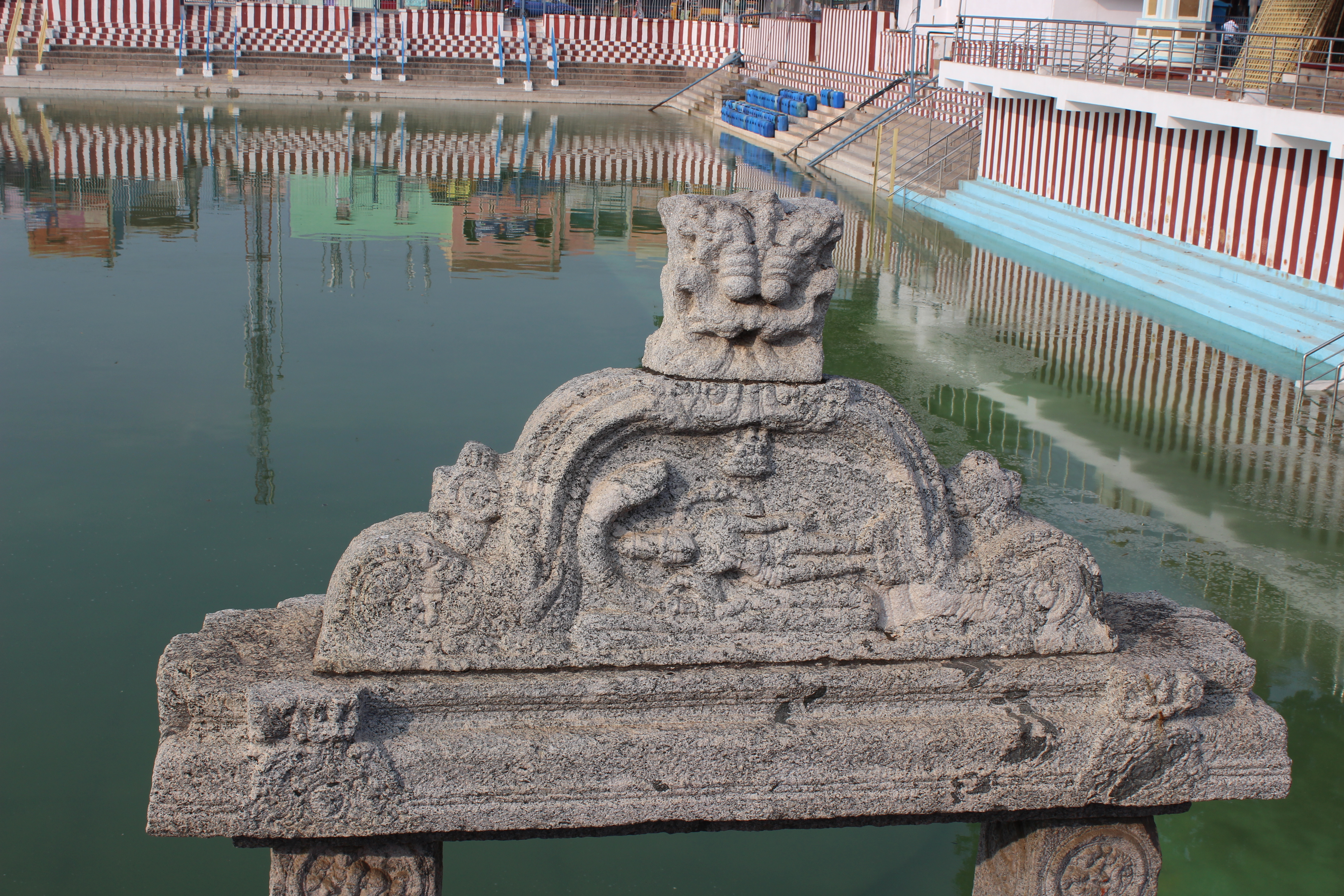 Thiruchanur